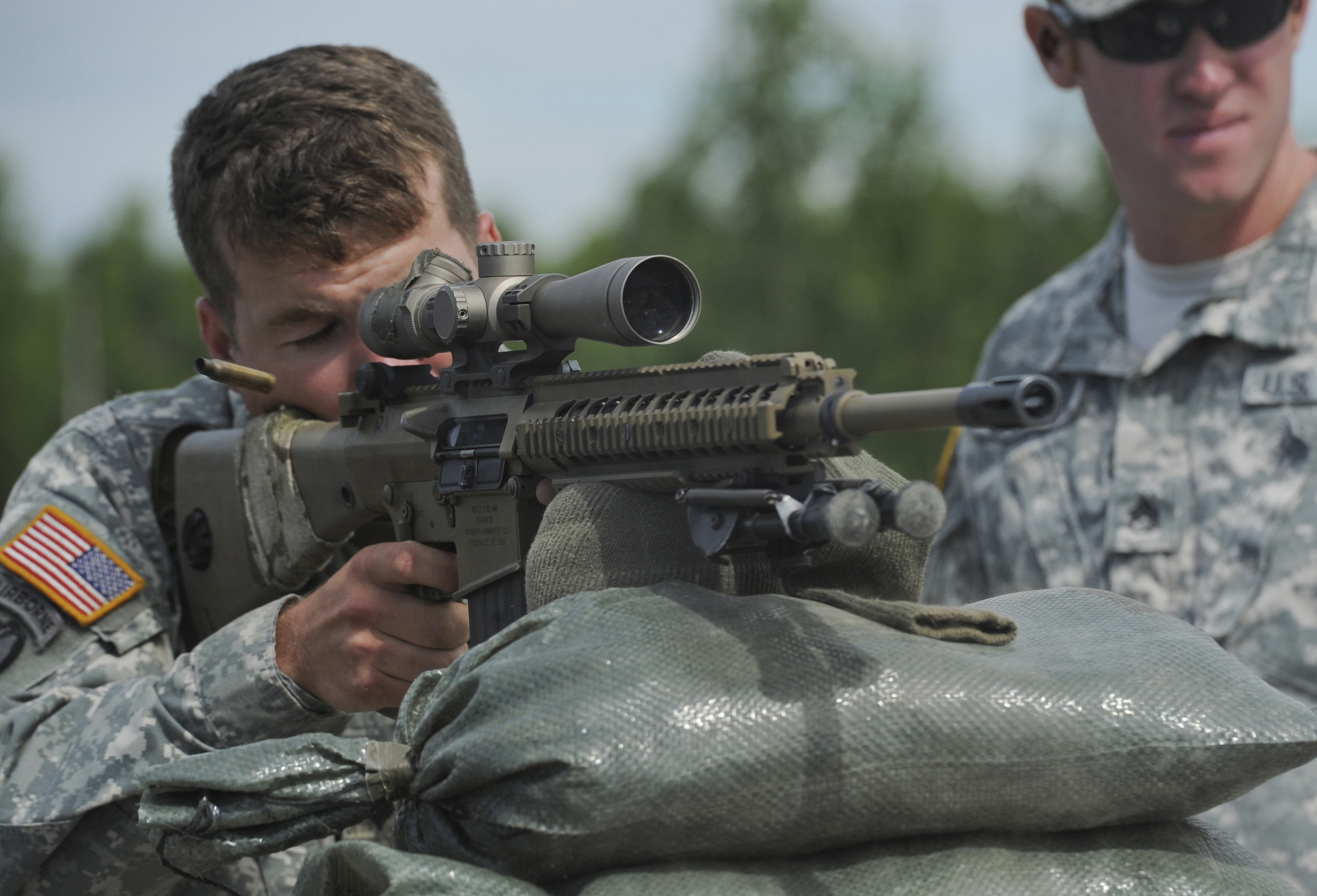 Spc. Anthony Tramonte, assigned to Headquarters and Headquarters Company, 3rd Battalion (Airborne), 509th Infantry Regiment of the 4th Brigade Combat Team (Airborne), 25th Infantry Division, a native of Peachtree City, Ga., fires as Staff Sgt. Kevin Corter, an instructor with the U.S. Army Sniper School and a native of Casa Grande, Ariz., watches during the final day of M110 Semi-Automatic Sniper System (SASS) qualifications at Joint Base Elmendorf-Richardson's Grezelka Range, July 10, 2013. The brigade's soldiers are attending the U.S. Army Mobile Sniper School, a five-week course with graded marksmanship on the M24 Sniper System, M110 SASS, and the M107 .50-Caliber Long Range Sniper Rifle. Students are also trained and graded in range estimation, target detection, stalking techniques, and written exams. Upon successful completion, all students will receive a diploma and those soldiers holding an infantry and/or special forces military occupational specialty will receive a B4 additional skill identifier.